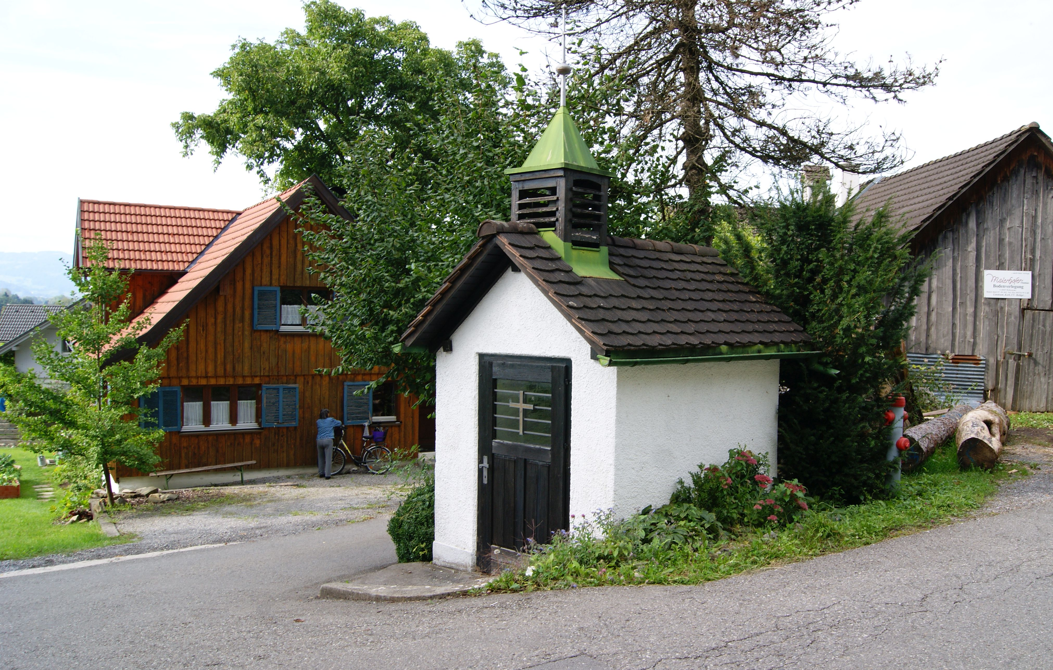 Chapel in the local district "Oberklien" in Hohenems, Vorarlberg, Österreich.